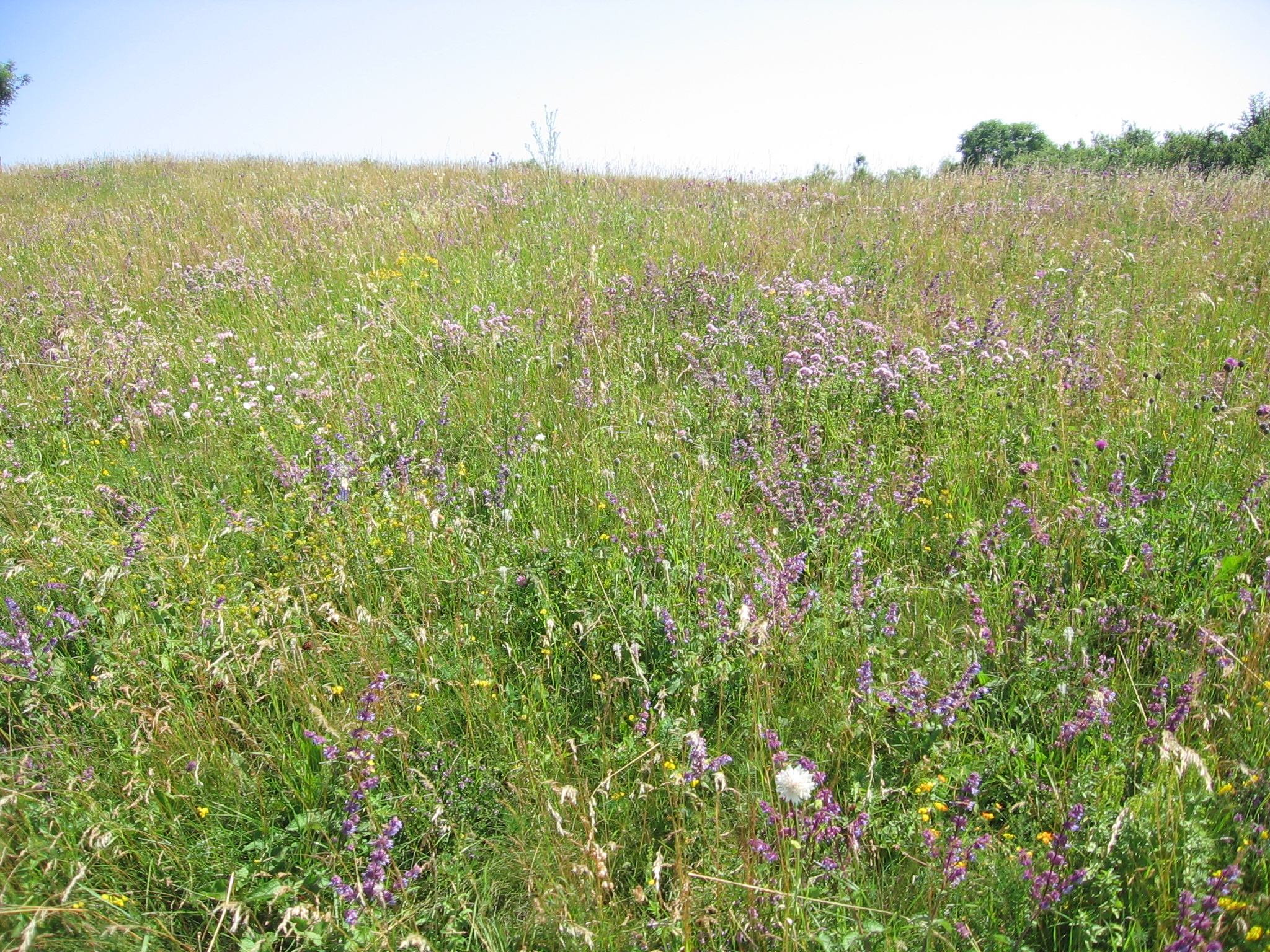 meadow on the hill Svinec, near Nový Jičín, Czech Republic